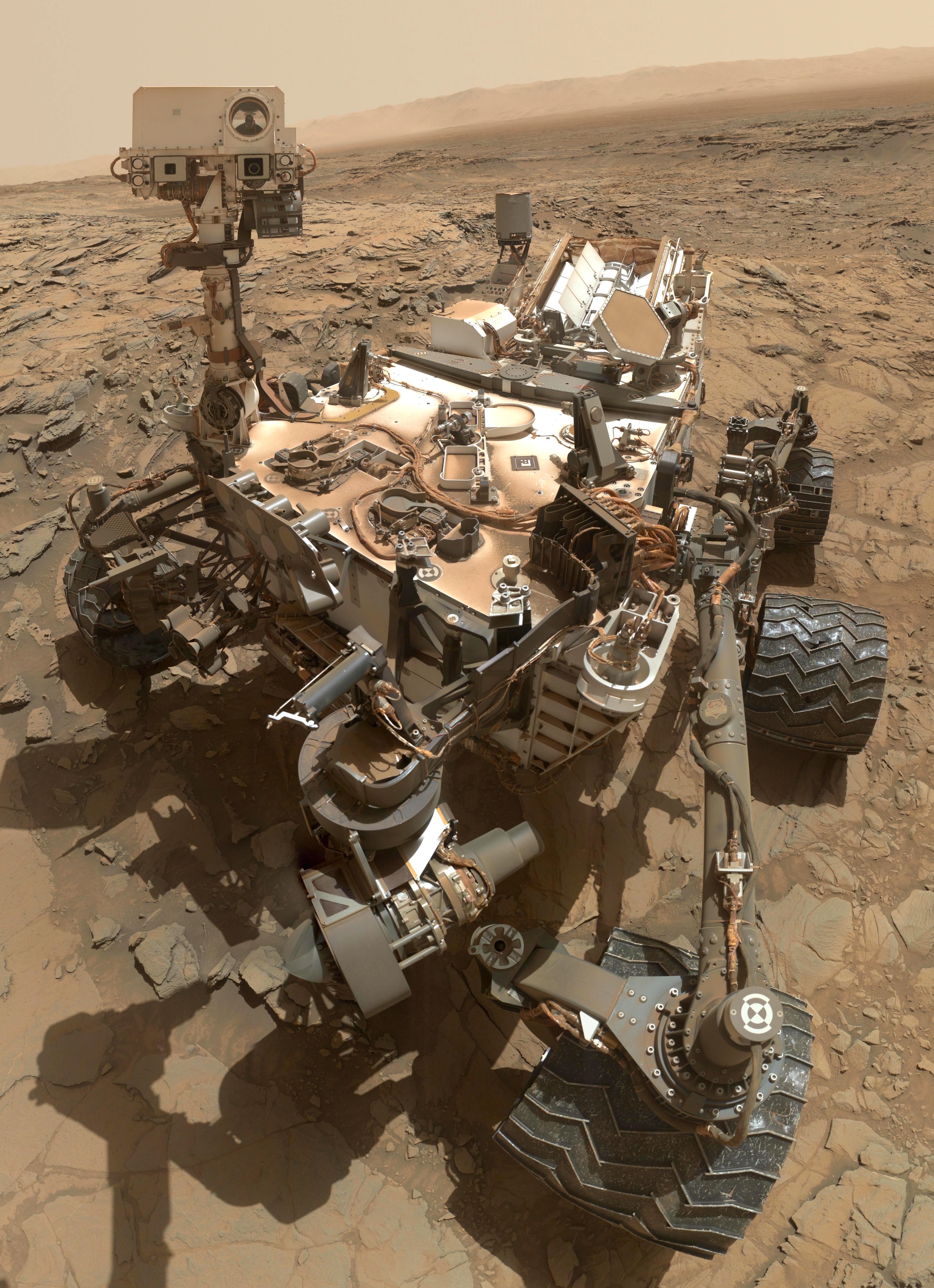 This self-portrait of NASA's Curiosity Mars rover shows the vehicle at the "Big Sky" site, where its drill collected the mission's fifth taste of Mount Sharp. The scene combines dozens of images taken during the 1,126th Martian day, or sol, of Curiosity's work during Mars (Oct. 6, 2015, PDT), by the Mars Hand Lens Imager (MAHLI) camera at the end of the rover's robotic arm. The rock drilled at this site is sandstone in the Stimson geological unit inside Gale Crater. The view is centered toward the west-northwest. It does not include the rover's robotic arm, though the shadow of the arm is visible on the ground. Wrist motions and turret rotations on the arm allowed MAHLI to acquire the mosaic's component images. The arm was positioned out of the shot in the images, or portions of images, that were used in this mosaic. This portrait of the rover was designed to show the Chemistry and Camera (ChemCam) instrument atop the rover appearing level. This causes the horizon to appear to tilt toward the left, but in reality, it appears fairly flat. For scale, the rover's wheels are 20 inches (50 centimeters) in diameter and about 16 inches (40 centimeters) wide. The drilled hole in the rock, appearing grey near the lower left corner of the image, is 0.63 inch (1.6 centimeters) in diameter.